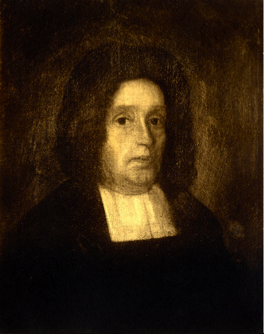 Portrait of Increase Mather